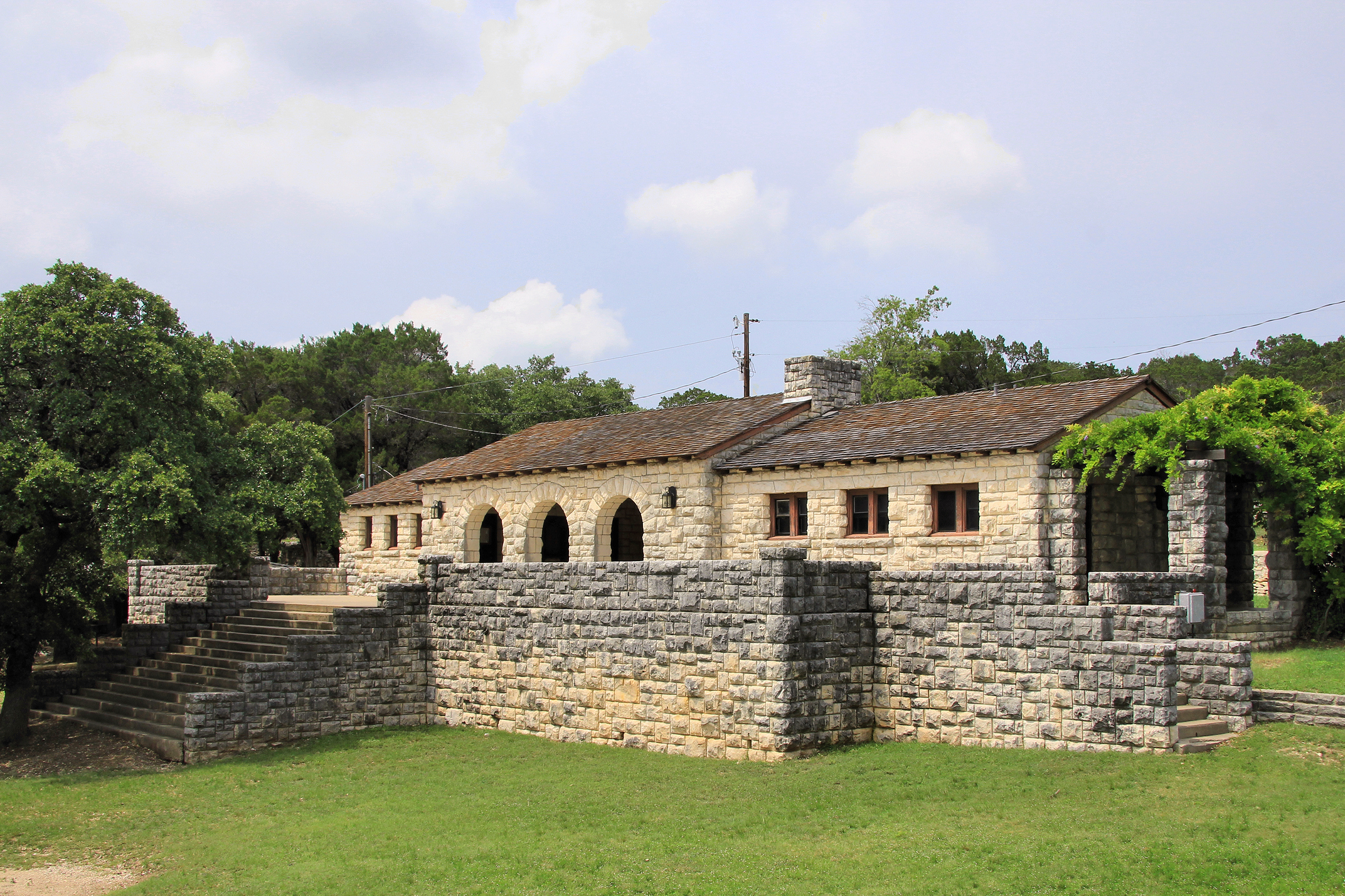 The former concession building at Meridian State Park. The structure was built by the Civilian Conservation Corps circa 1934.